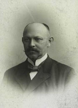 Jens Arnold Diderich Jensen (Bildsøe) (1849-1936), Danish Naval officer and arctic explorer